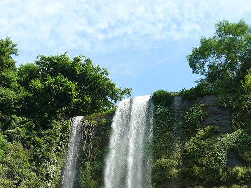 Shuvolong is one of the best falls in the Bangladesh. The beauty is much more than captured.